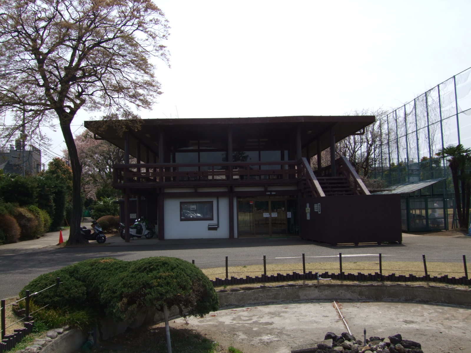 NHK Fujimigaoka Clubhouse, Suginami, Tokyo, Japan. Designed by the Japanese architect Kunio Maekawa.